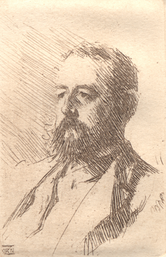 Etching of Swedish poet, count and diplomat Carl Snoilsky (1841-1903)